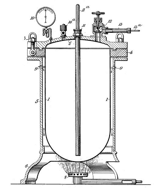 reactor vessel